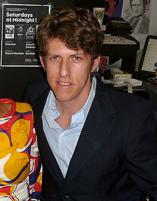 Multi-instrumentalist and producer Greg Kurstin at the Amoeba Music in Hollywood, Los Angeles, California in 2007.